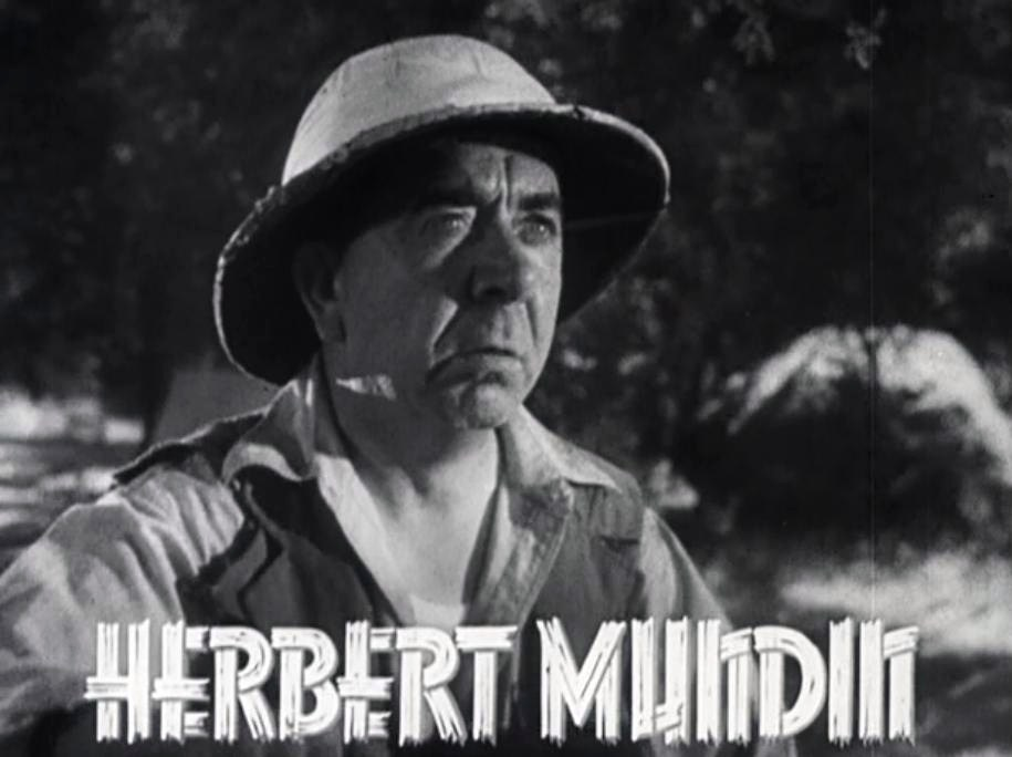 Herbert Mundin in Tarzan Escapes - trailer (cropped screenshot)